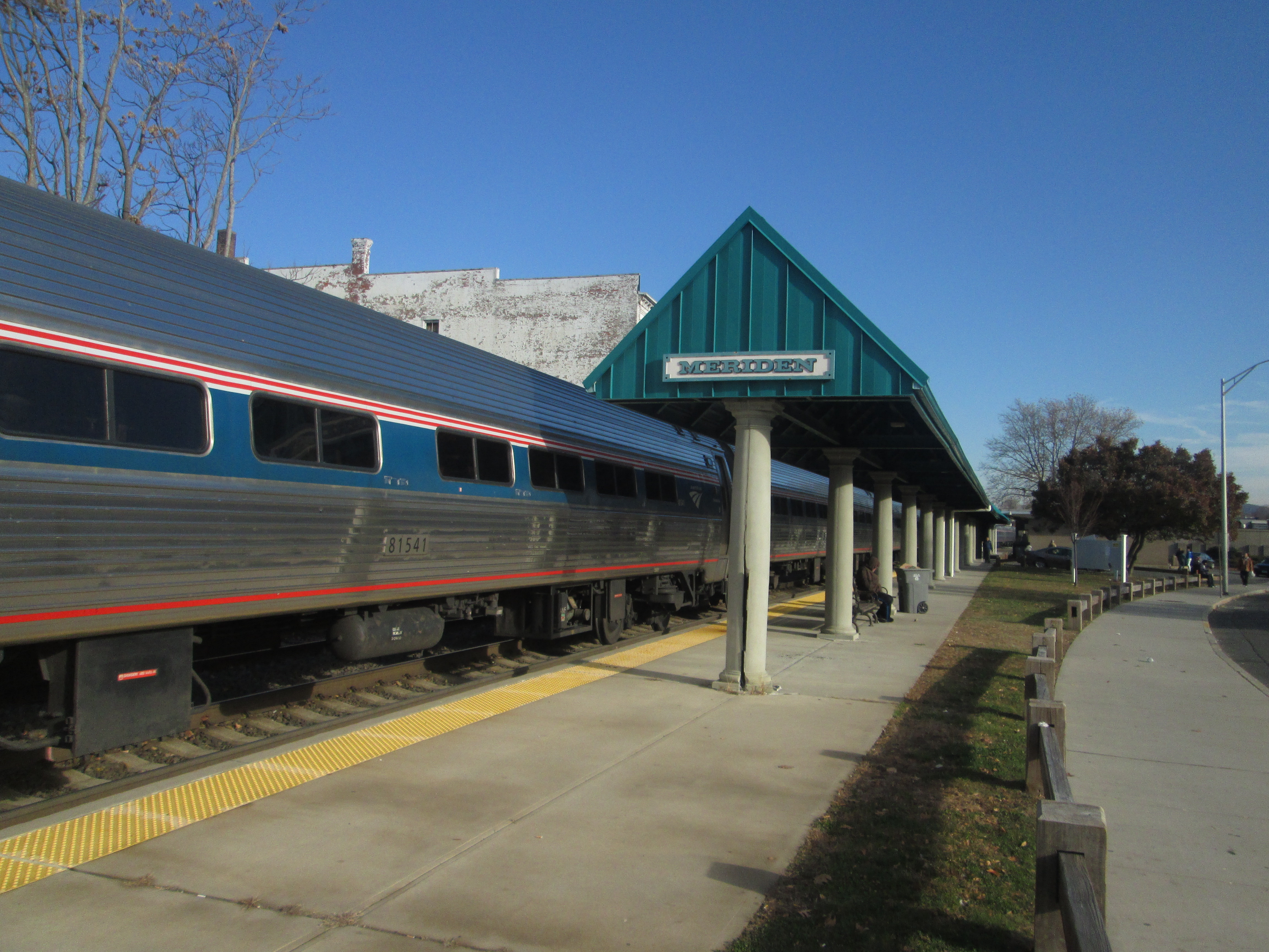 A Northeast Regional at Meriden station in November 2013